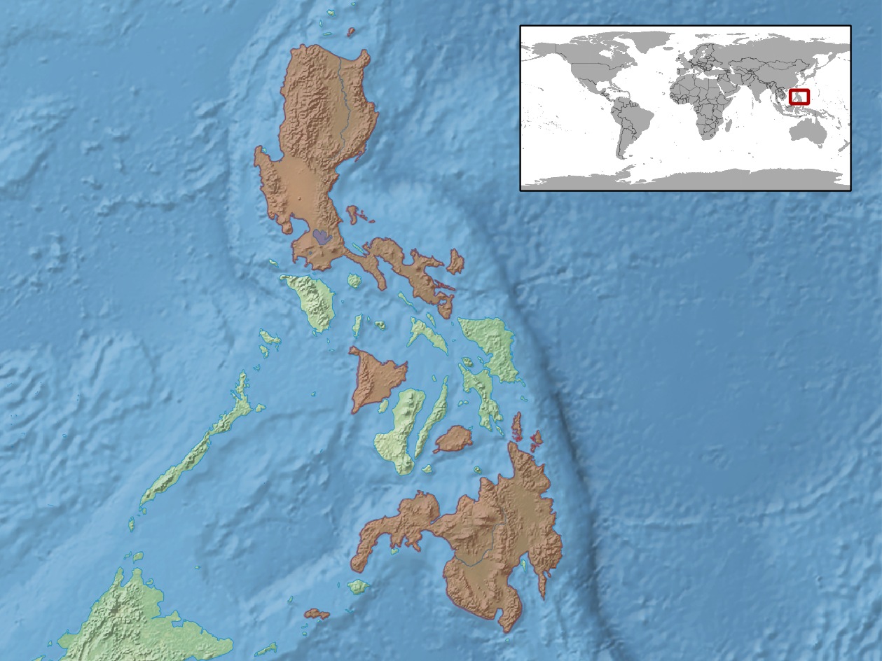 geographic distribution of Trimeresurus flavomaculatus (Native: Philippines)